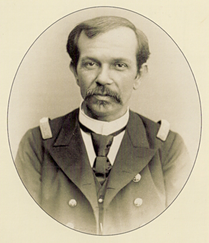 Marshal Floriano Peixoto, c.1881.